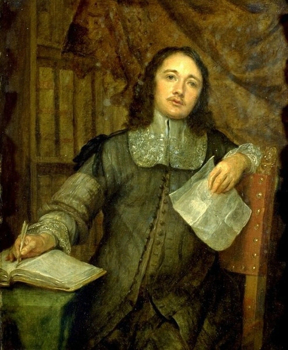 Portrait of Cornelis de Bie by Gonzales Coques (circa 1660, Staatliche Museen, Berlin)